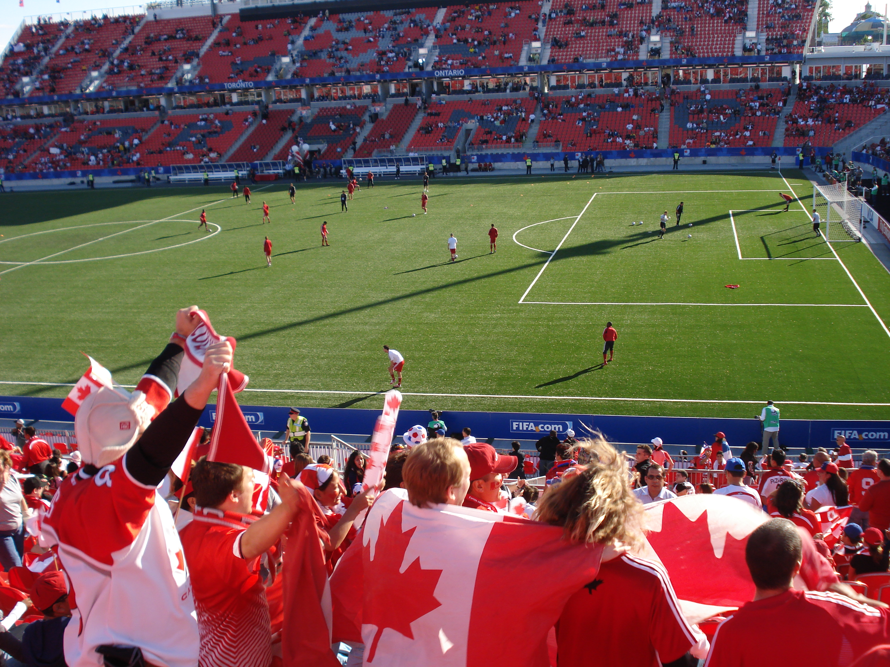 Canadian suporters at the match between Canada and Chile, FIFA U-20 World Cup 2007, BMO Field stadium, Toronto, Canada.